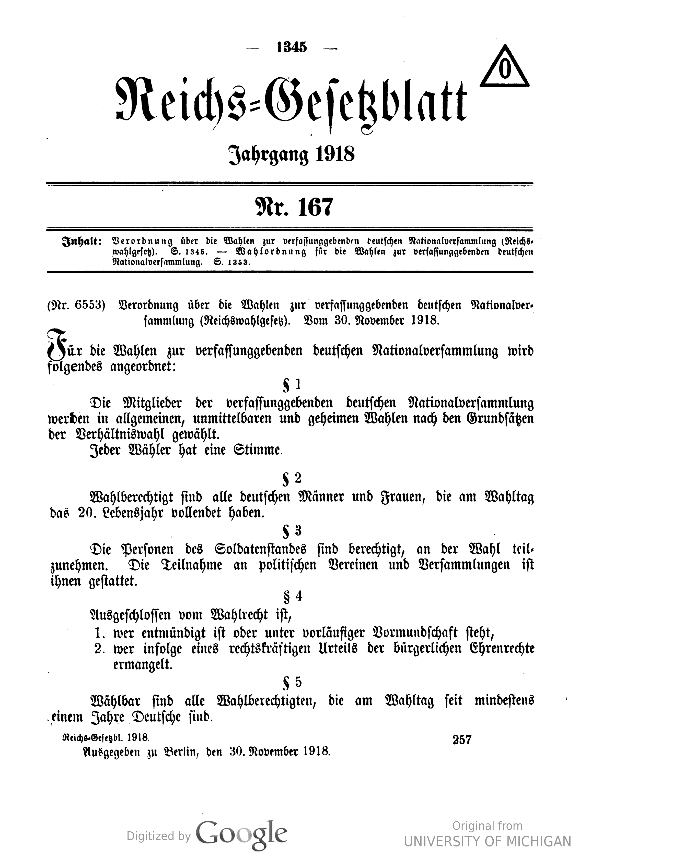 Scan from the Imperial Law Gazette of Germany, 1918